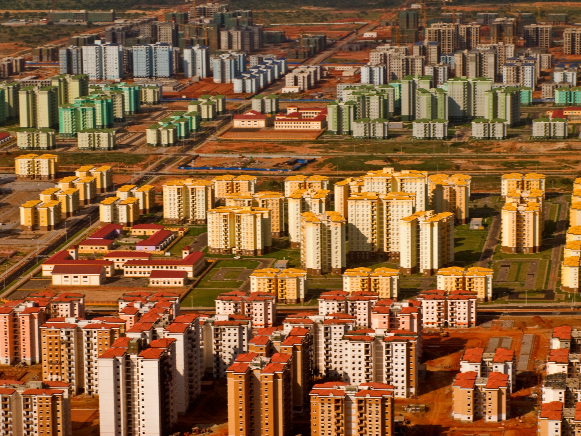 The new city of Kilamba in Luanda Province